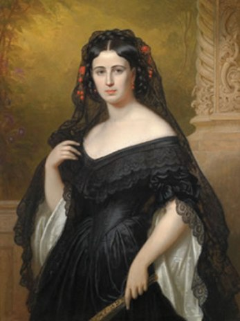 Image came from an eBay sale of the portrait. The artist and sitter have been dead for more than 100 years. The portrait was also published in 1913 in a book by an American publisher. The comment within the image says: Henriette Mendel (1833-1891) Portrait by Friedrich Dürck (1809-84) Also known as Henrietta Mendel, she was an actress who was elevated to nobility as Baroness Wallersee (1859). She was the wife (1859-1891) of Ludwig Wilhelm, Duke in Bavaria (1831-1920) and mother of Marie, Countess Larisch von Moennich (1858-1940). A copy of this portrait appears on page 11 of Larisch's autobiography, "My Past" (G.P. Putnam's Sons, 1913). The caption reads: "Henrietta Mendel, Baroness von Wallersee, mother of Countess Marie Larisch."